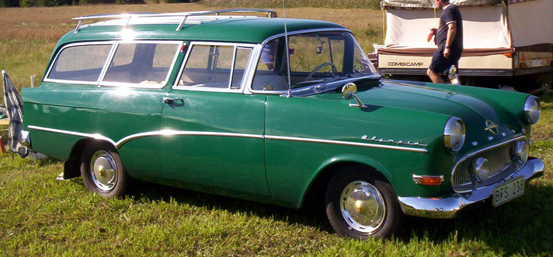 Opel Olympia Caravan 1959